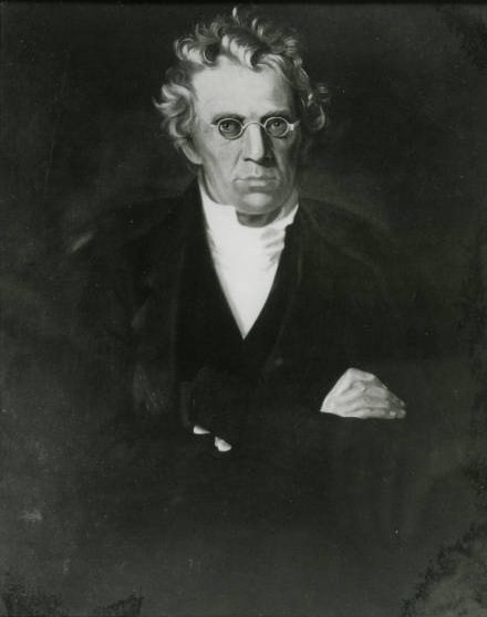 Image of Matthew Brown (college president) (1776-1853)